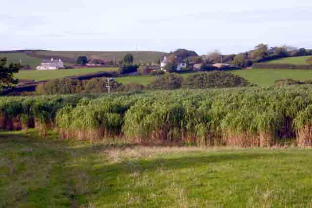 A trial crop of the energy crop Miscanthus x giganteus near Great Torrington photographed in 2005.